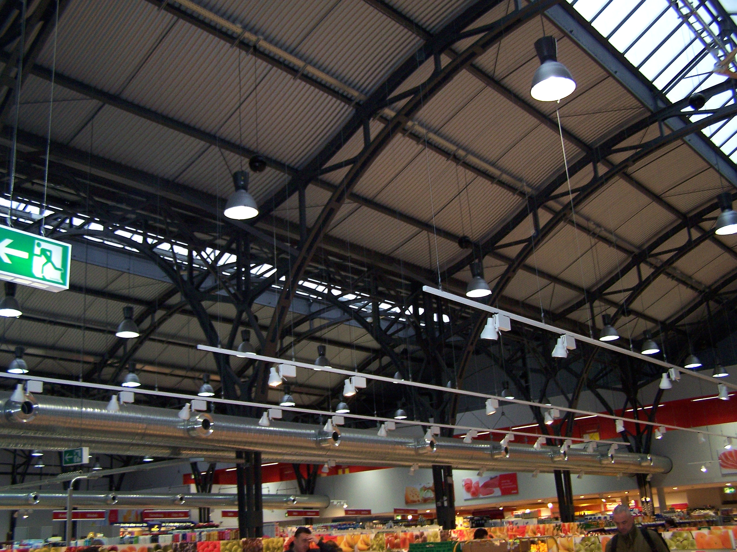 Hall ceiling in the former tram depot in Frankfurt am Main-Bornheim in December 2009